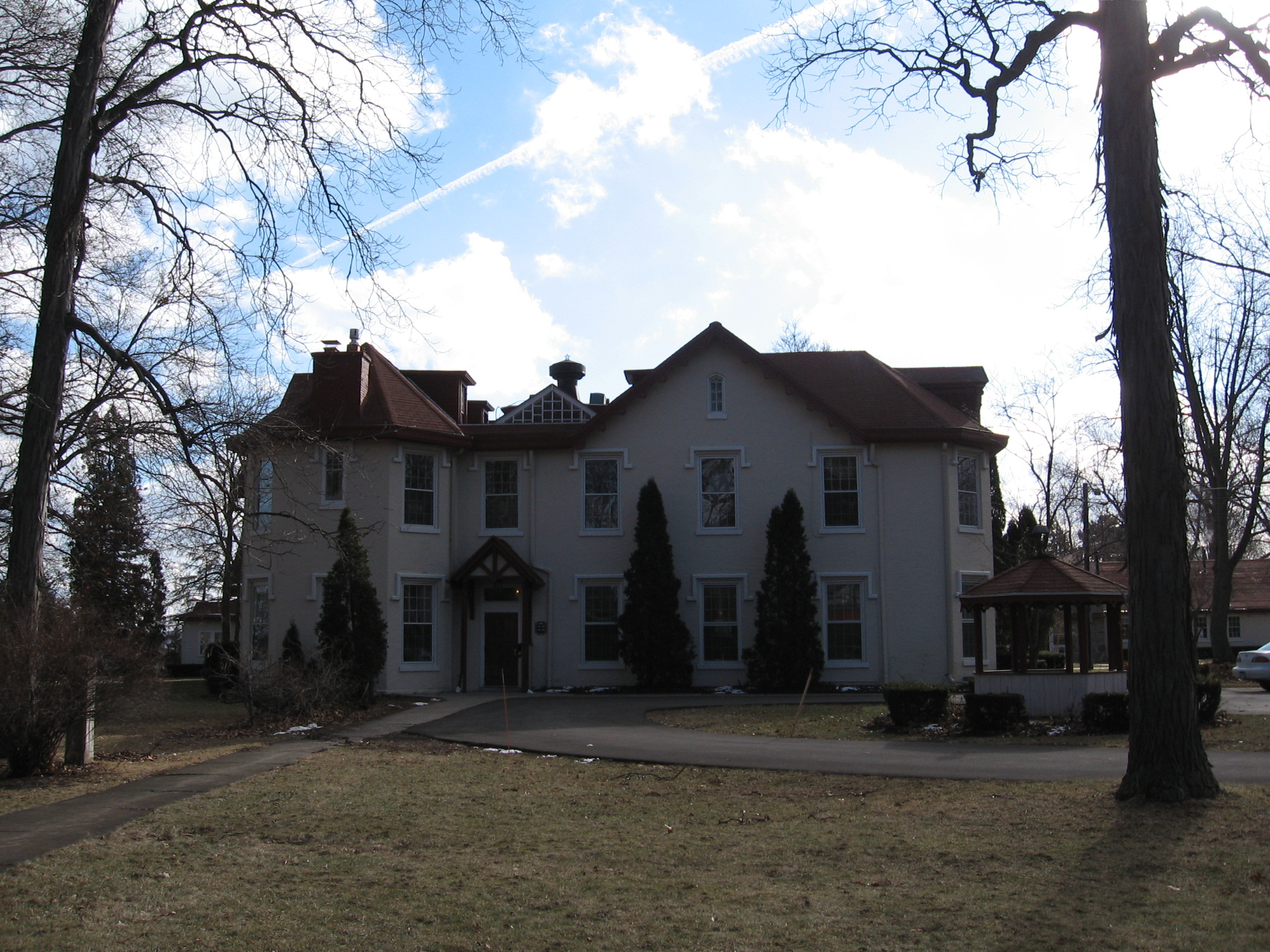 Brigham Hall, Canadaigua, New York.